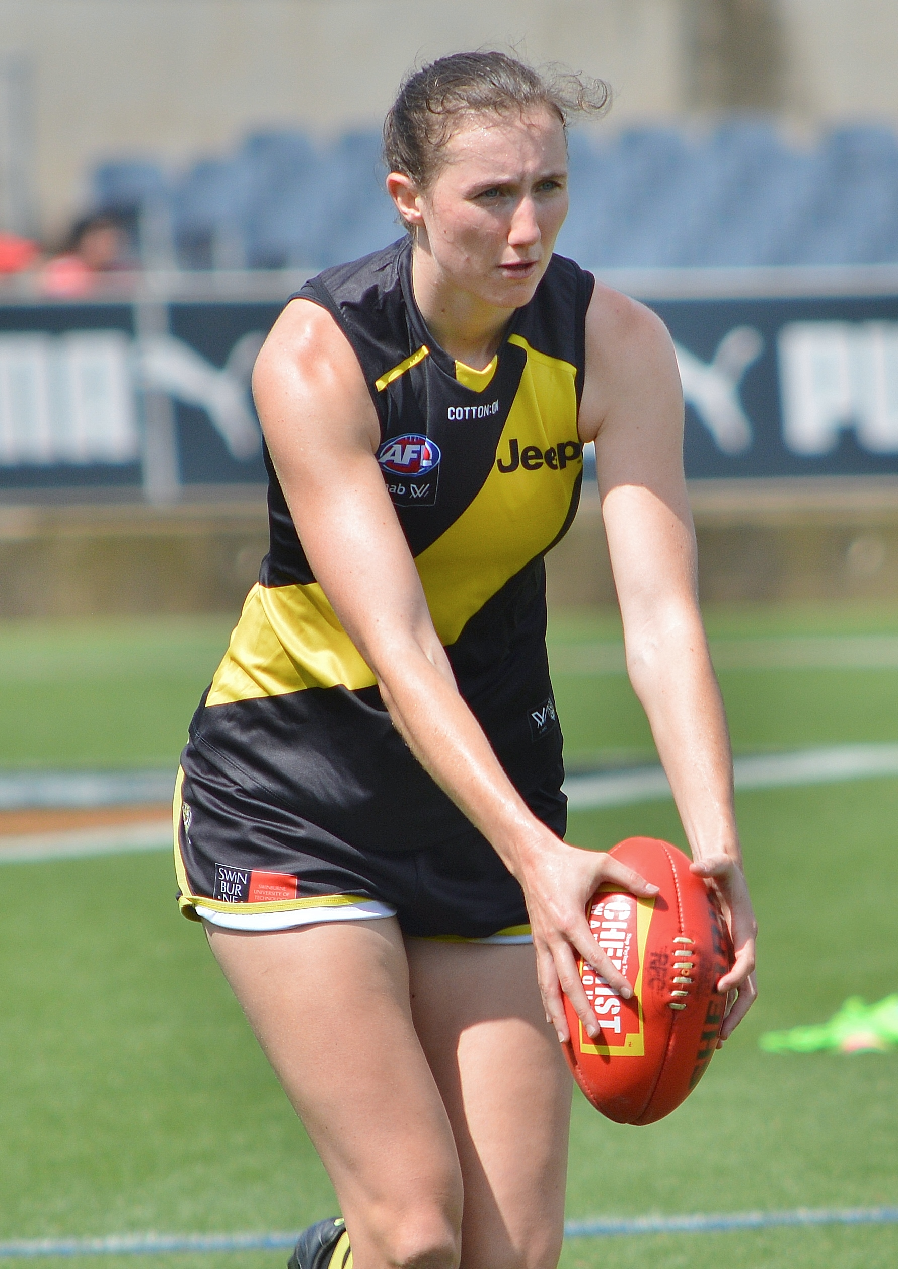 Rebecca Miller with Richmond during the round 3, 2020 AFL Women's match against North Melbourne at Ikon Park.